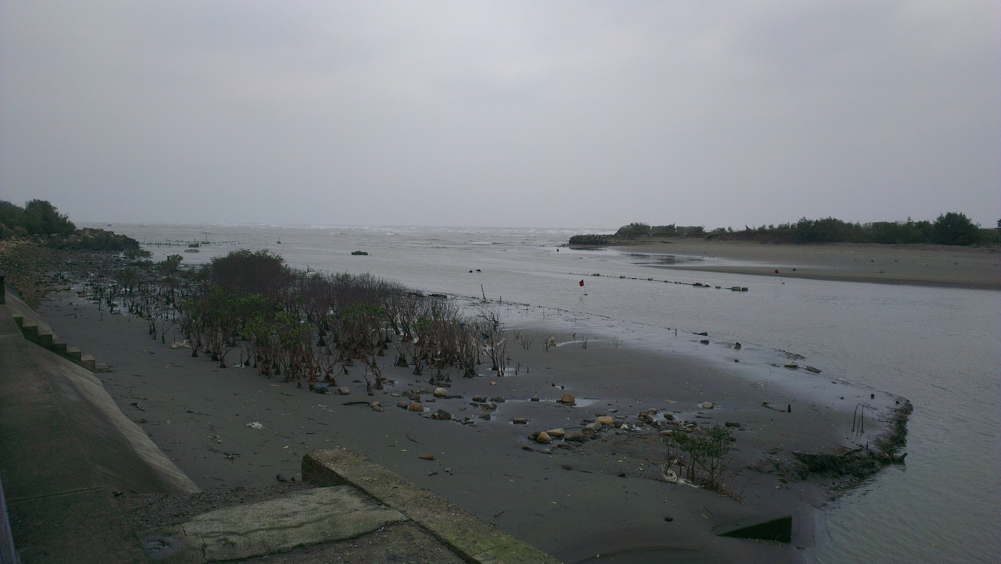 The mouth of Xinwu Creek river